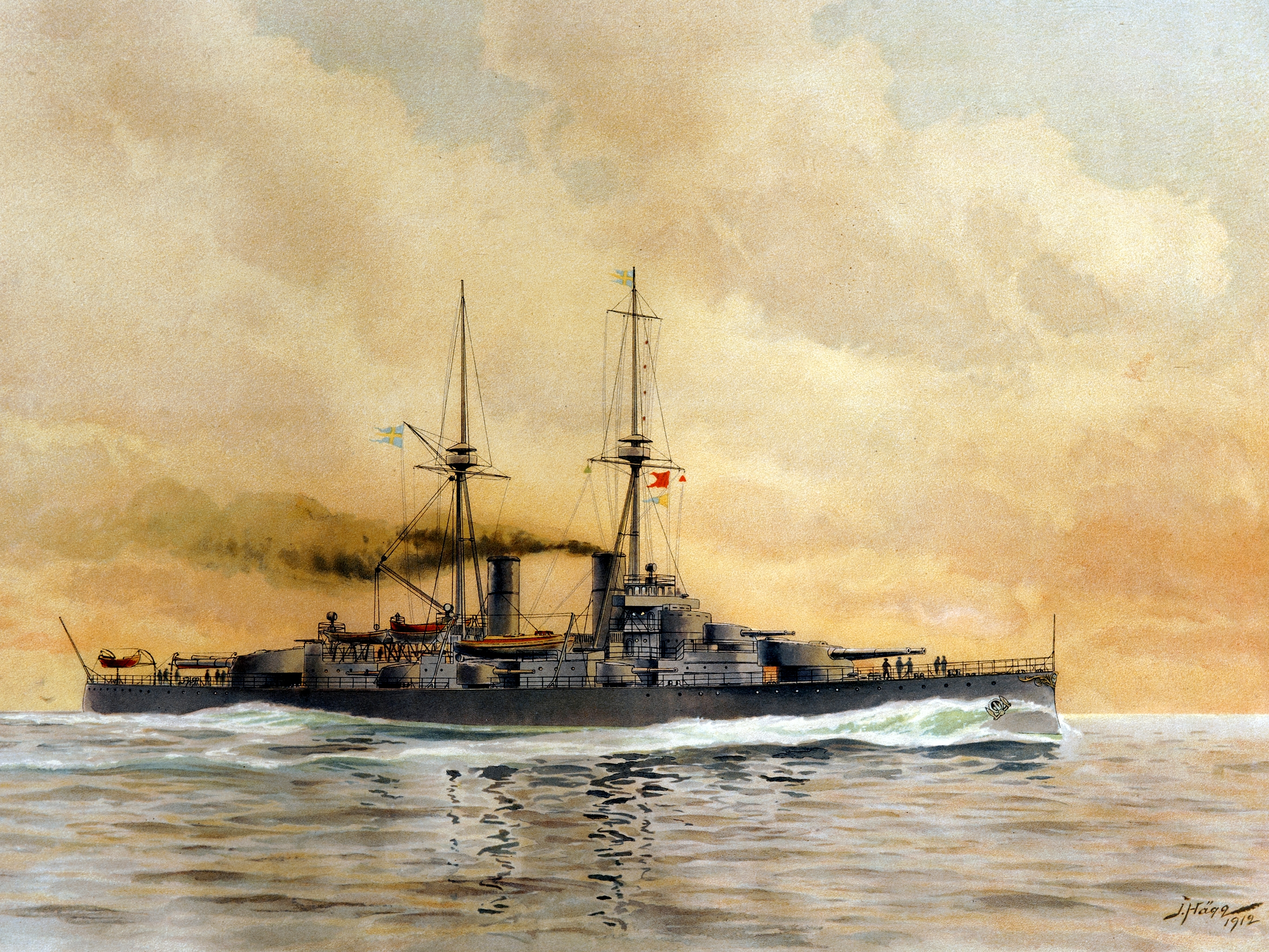 Fictional portrait (Fartygsporträtt) of Swedish Dreadnought (Pansarskepp) HMS Sverige (built 1915)